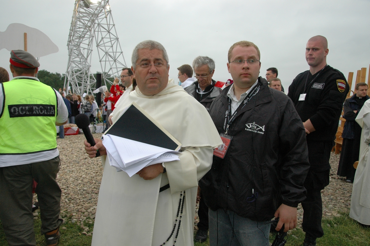 Father Jan Góra - the organizer of the Lednica Meeting with the Press Ombudsman Lednice - Bartolomeo Dobrzyńskin. Photo taken during the meeting Lednica 2000 in 2007.